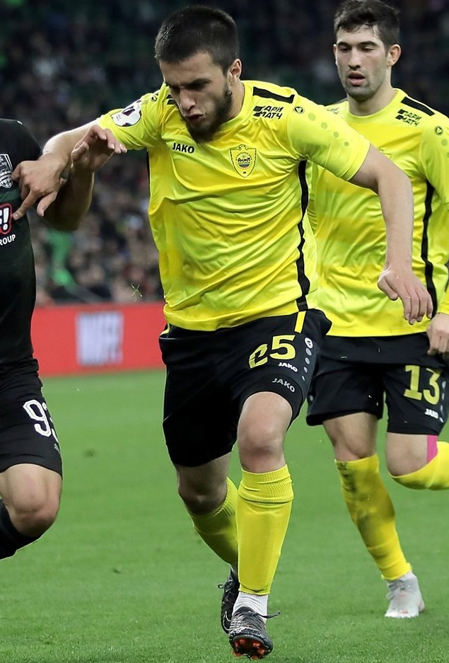 Magomed Elmurzayev with FC Anzhi Makhachkala in a game against FC Krasnodar.